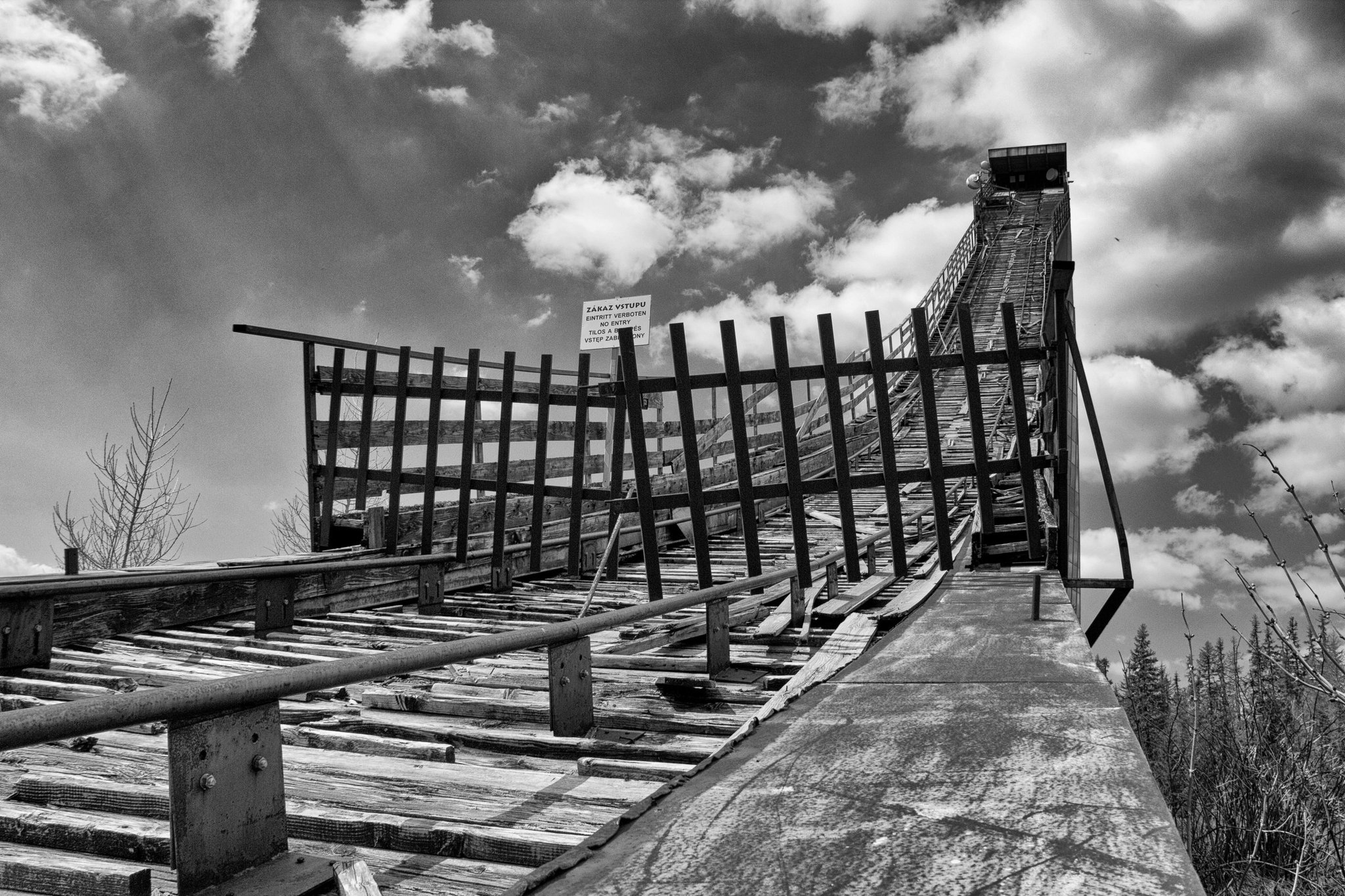 The abandoned big ski jumping hill in Štrbské Pleso